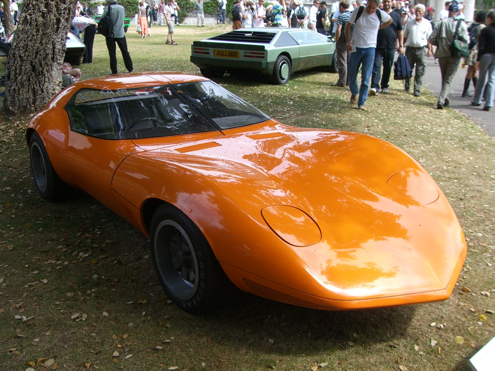 Designed by Wayne Cherry. Engine from a VX 4/90